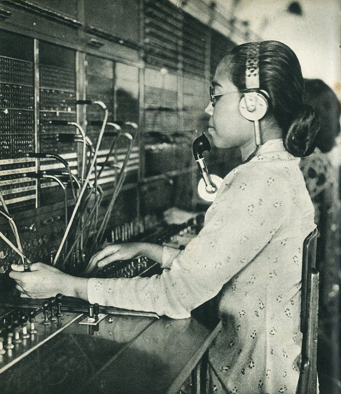 Switchboard operator